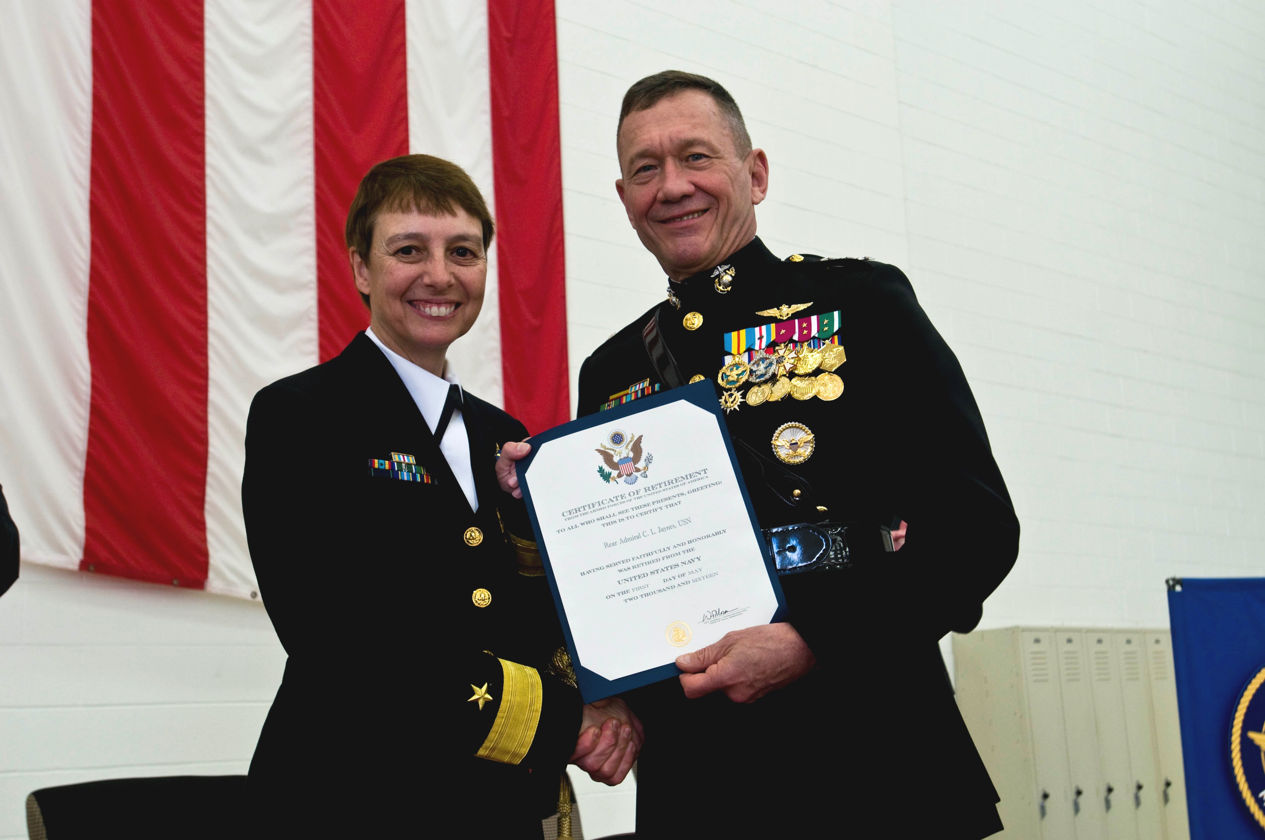 Deputy Commandant for Aviation, U.S. Marine Corps Lieutenant General Jon M. Davis presented Rear Admiral CJ Jaynes with her retirement certificate during a ceremony Apr. 1 at Naval Air Station Patuxent River, Md. Jaynes officially retired May 1 after serving in the U.S. Navy for 33 years. She was the first woman admiral at the Naval Air Systems Command; the 79th in the U.S. Navy. (U.S. Navy photo)